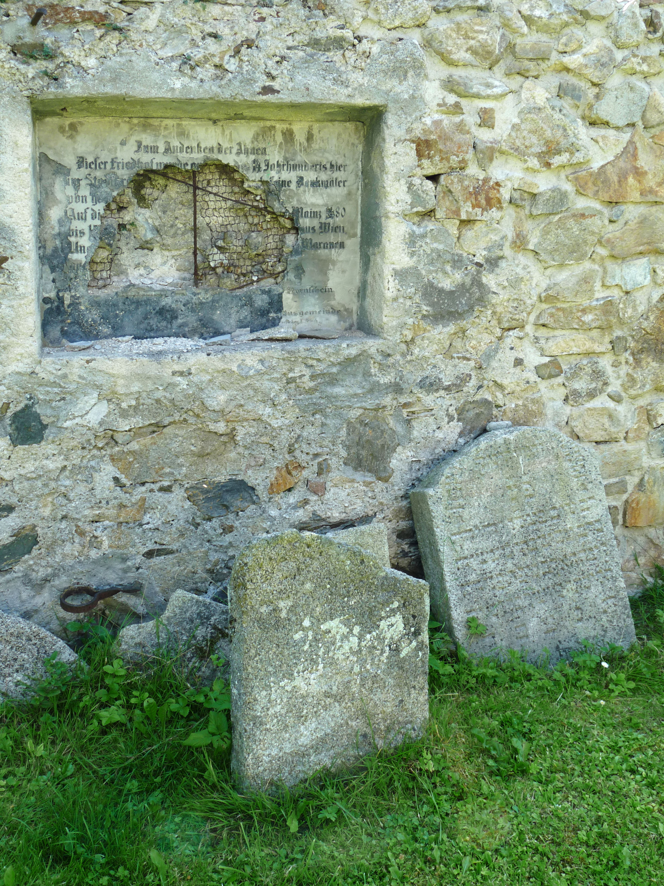 Old Jewish cemetery in the town of Rožmberk nad Vltavou, South Bohemian Region, Czech Republic. Česky: Starý židovský hřbitov ve městě Rožmberk nad Vltavou, okres Český Krumlov.